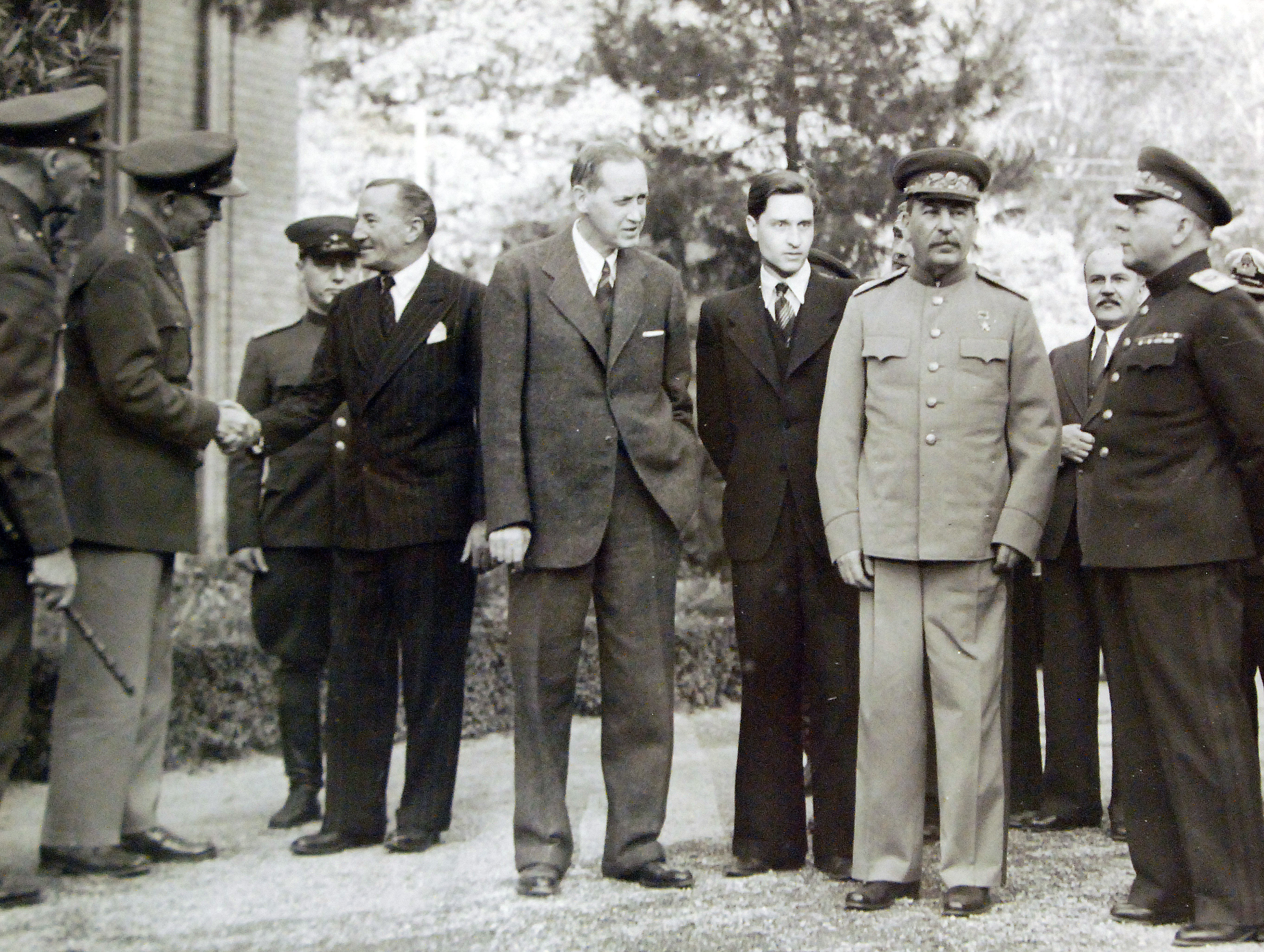 Lot 11597-7: Tehran Conference, November 28-December 1, 1943. Standing outside the Russian Embassy, left to right: Unidentified British officer; General George C. Marshall, Chief of Staff, USA, shaking hands with Sir Archibald Clark Keer, British Ambassador to the USSR; Harry Hopkins, Marshal Stalin’s interpreter; Marshal Josef Stalin; Foreign minister Molotov; General Voroshilov. Originally an U.S. Army photograph. Office of War Information Photograph (2016/01/15).